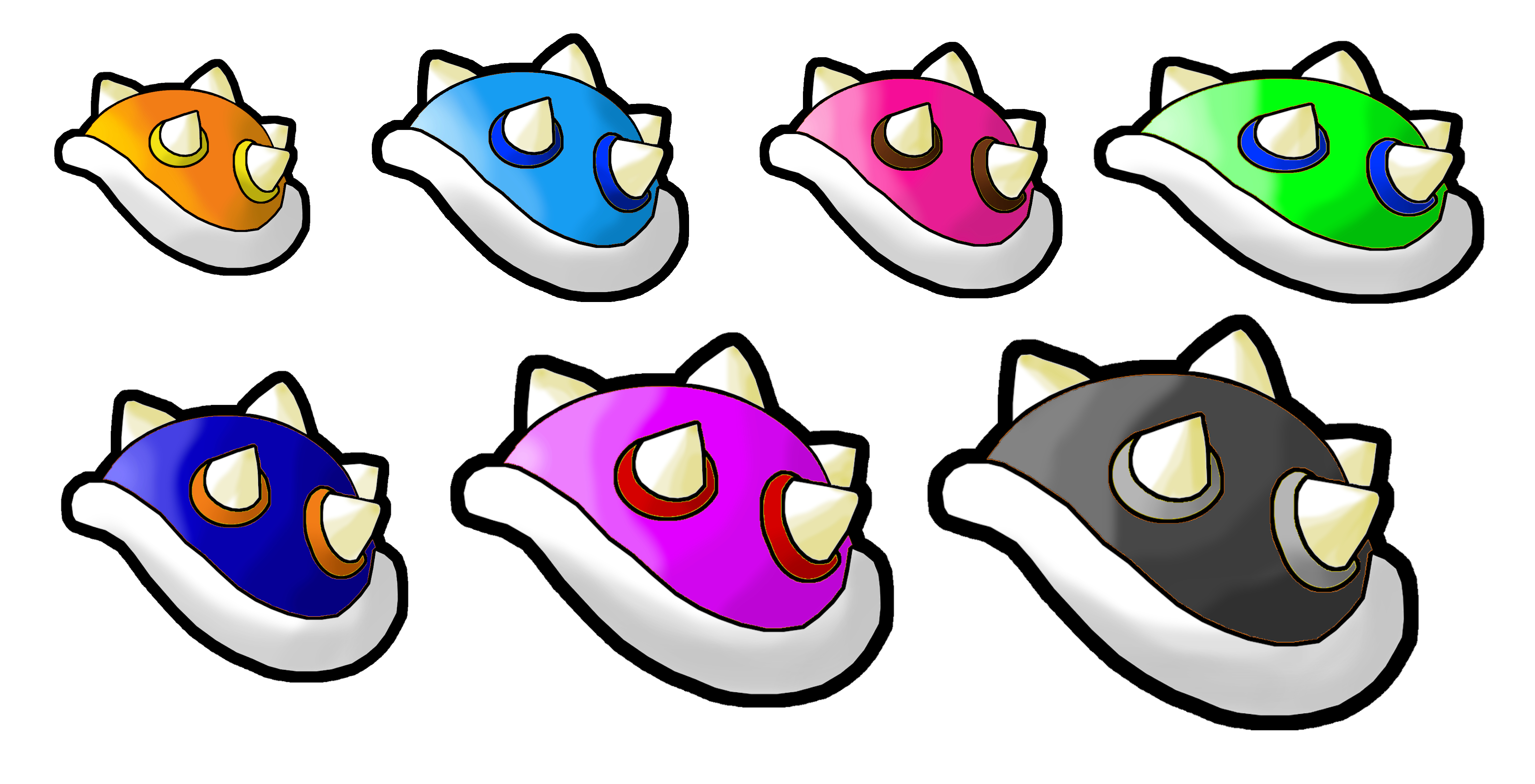 All Koopalings' Sells. From left to right, they are of Lemmy, Larry, Wendy, Iggy, Ludwig, Roy and Morton.